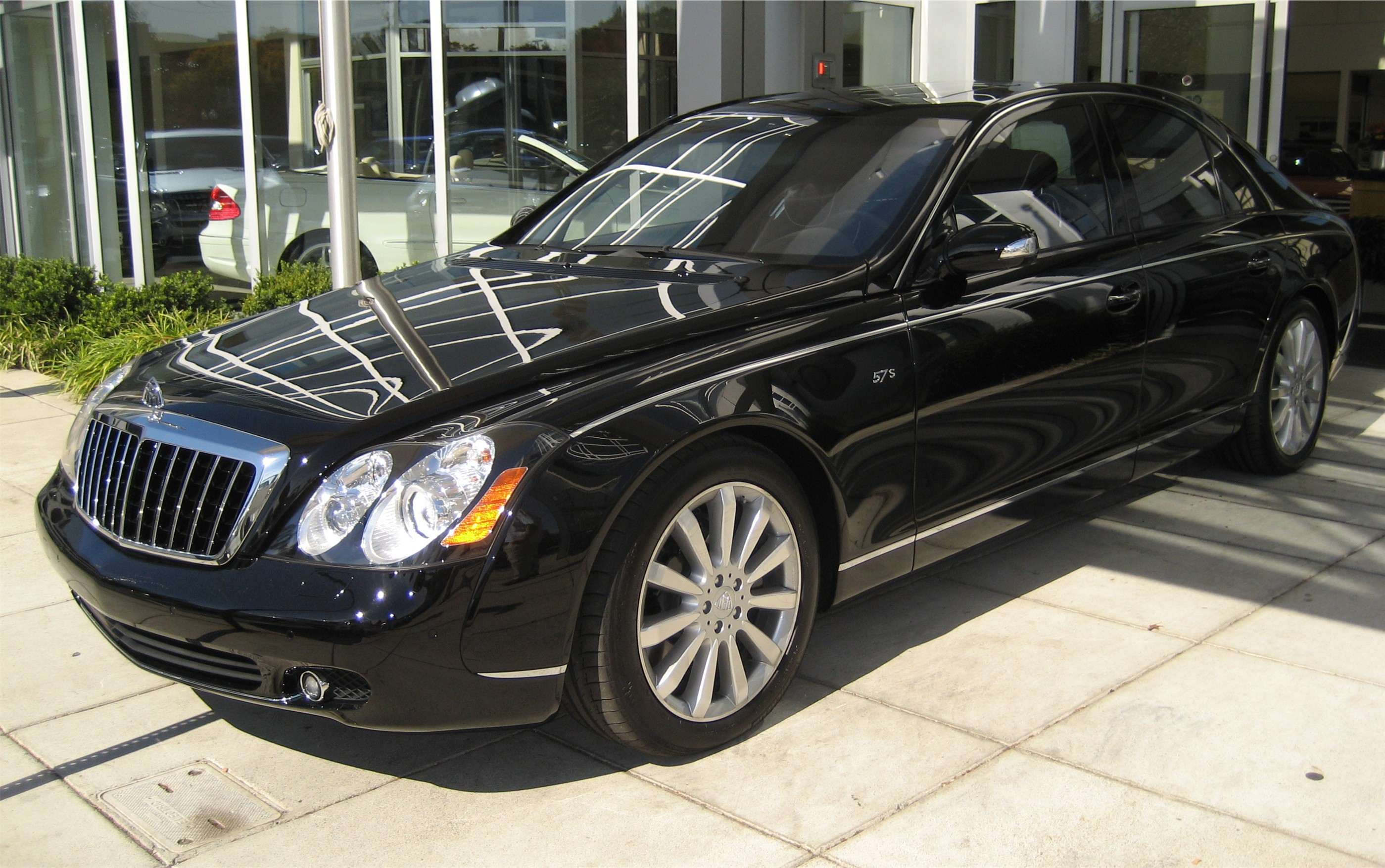 2008 Maybach 57S in Bethesda, Maryland.